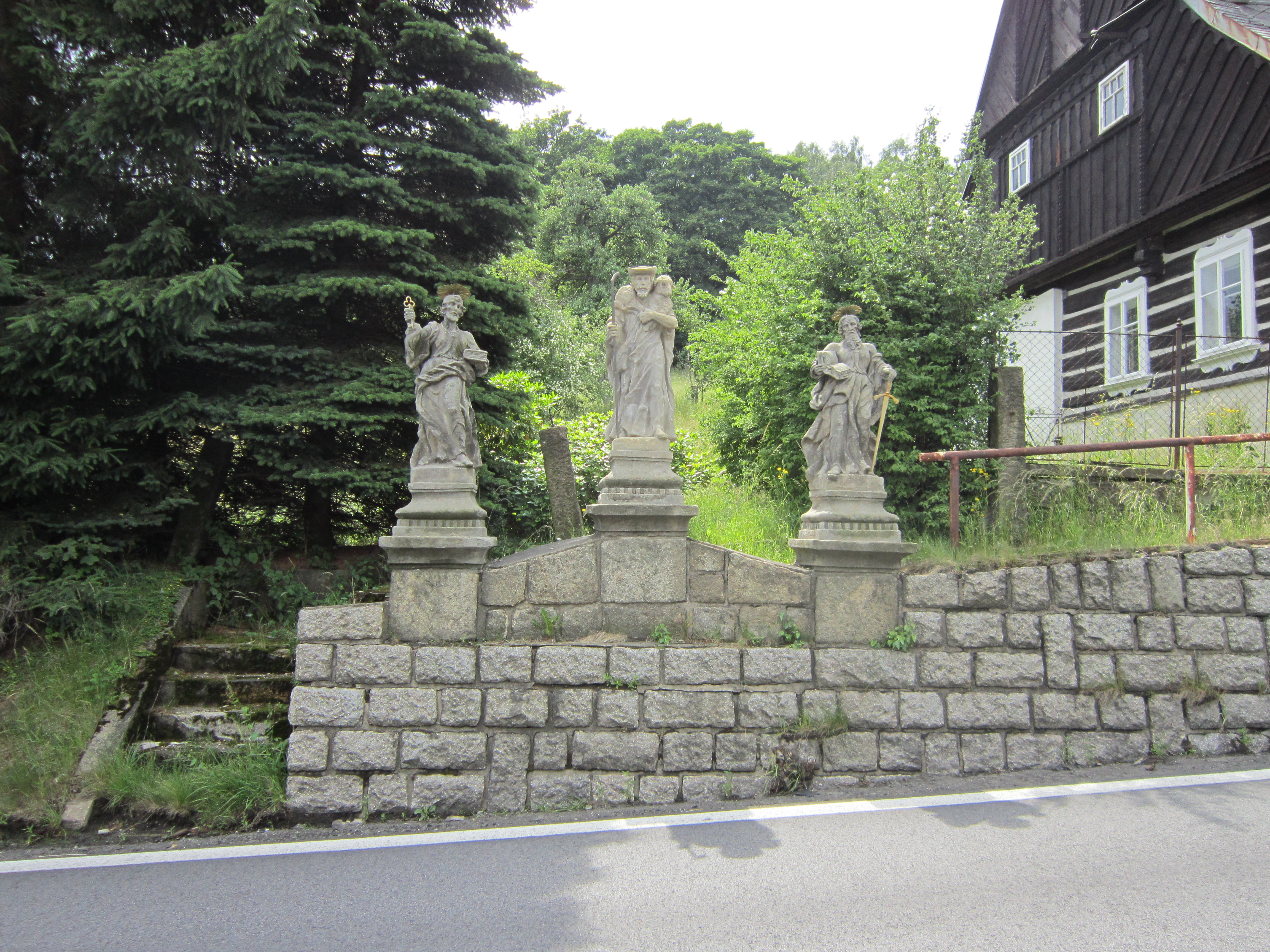 Sculpture os St. Peter and Paul and Good Shepherd in Bratříkov (part of village Pěnčín) next to house number 30.